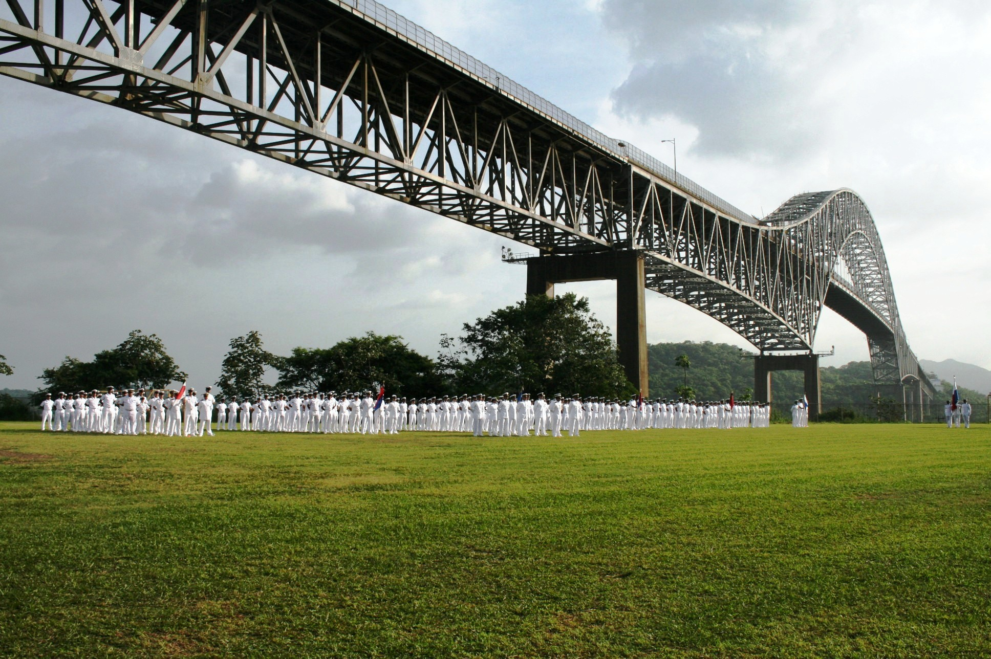 Bridge of the Americas: road bridge which spans the Pacific entrance to the Panama Canal. Constructed between 1958-1963.